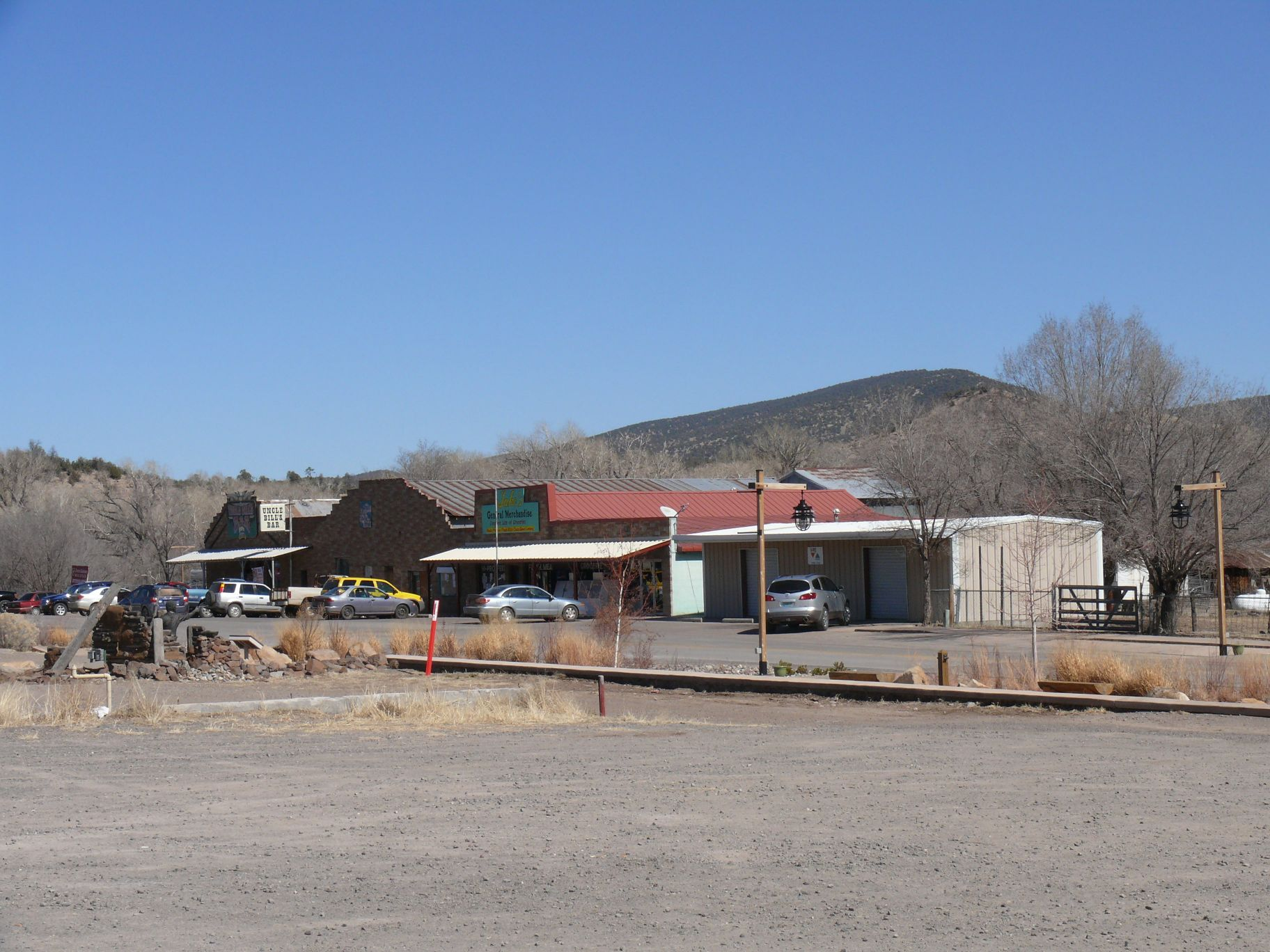 The center of Reserve (New Mexico, USA).